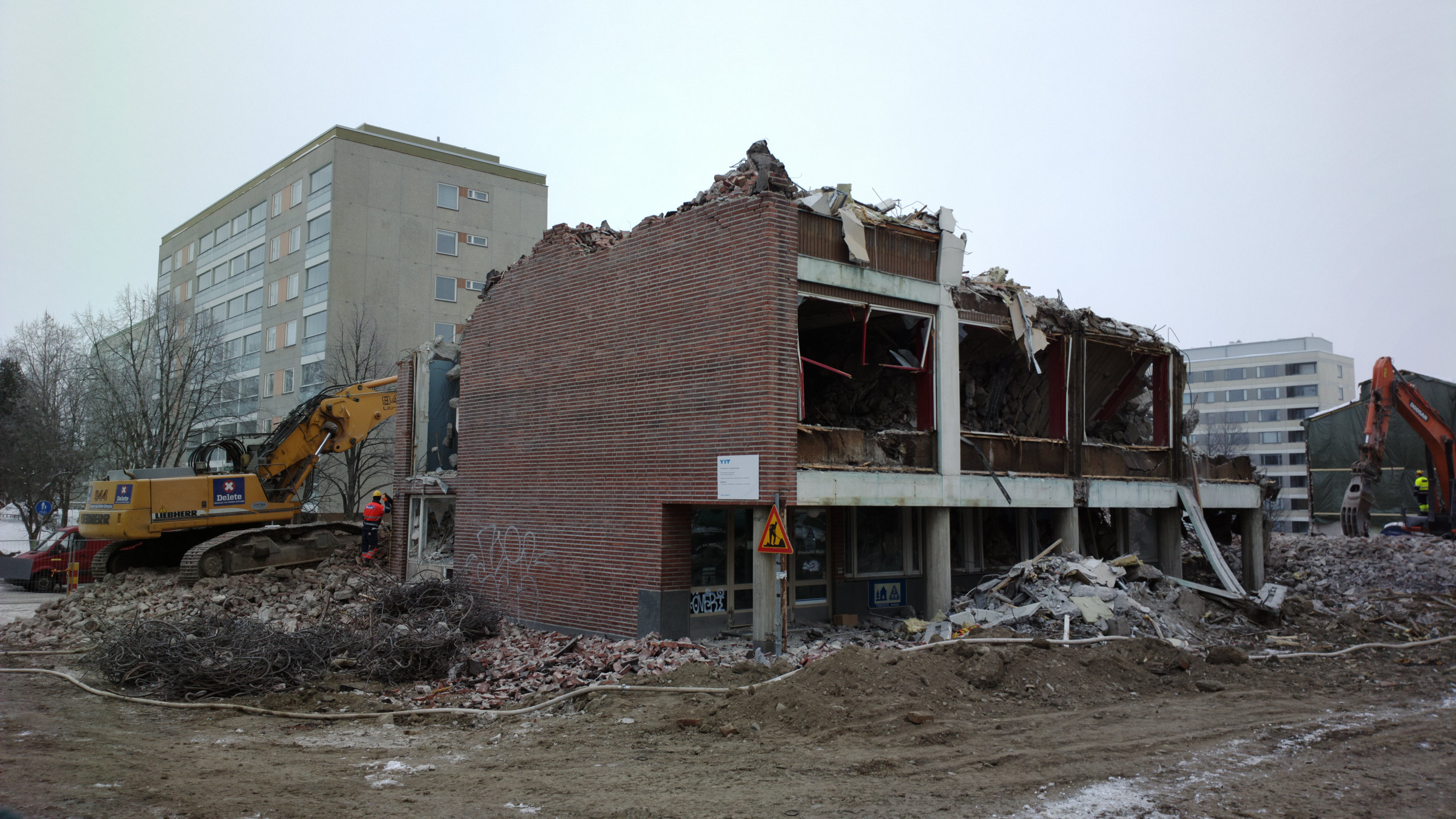 Old hostel next to Pyynikki Swimming Hall under demolition 2013